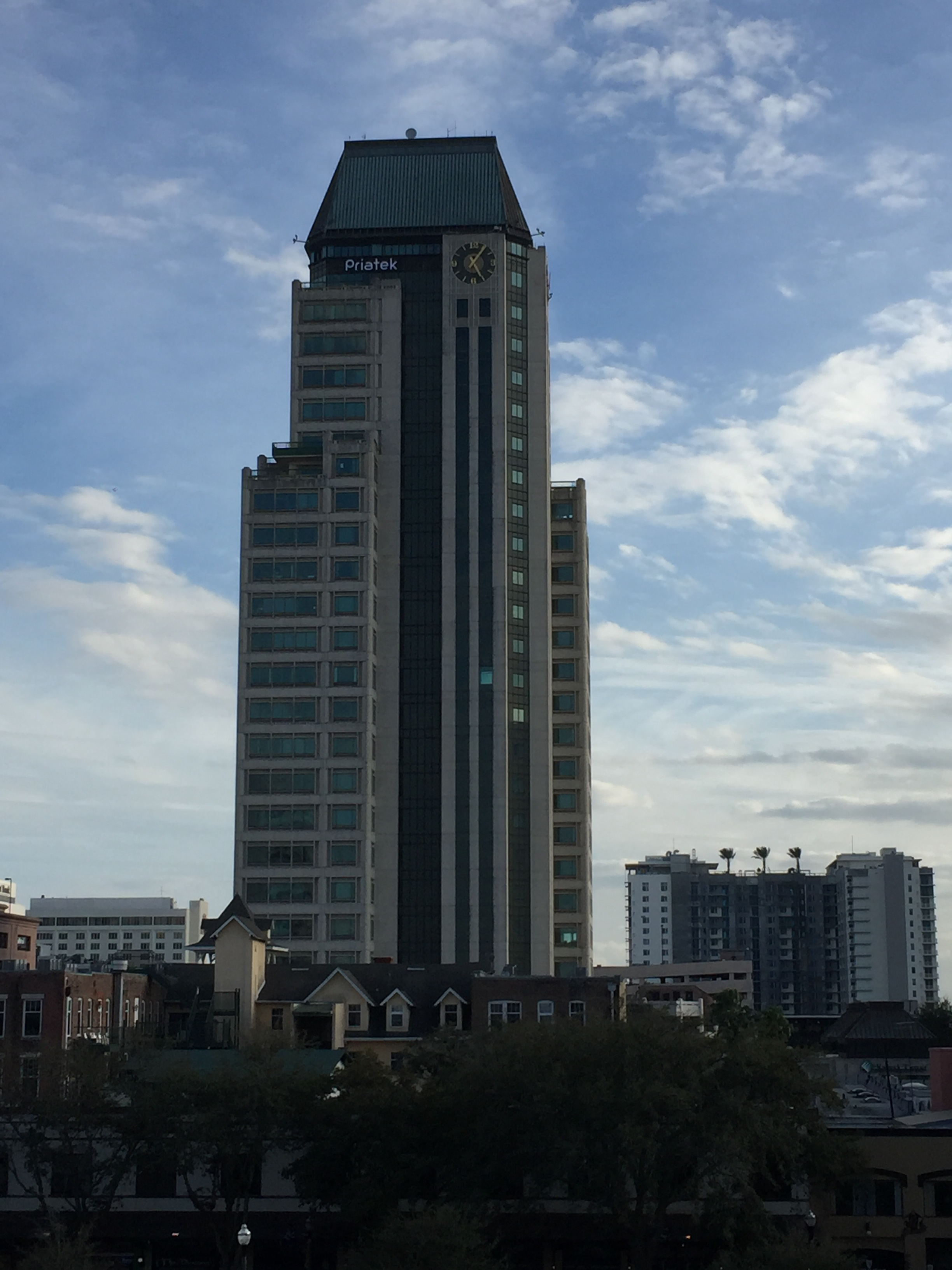 One Progress Plaza (currently as of February 2016 known as Priatek Plaza) viewed.